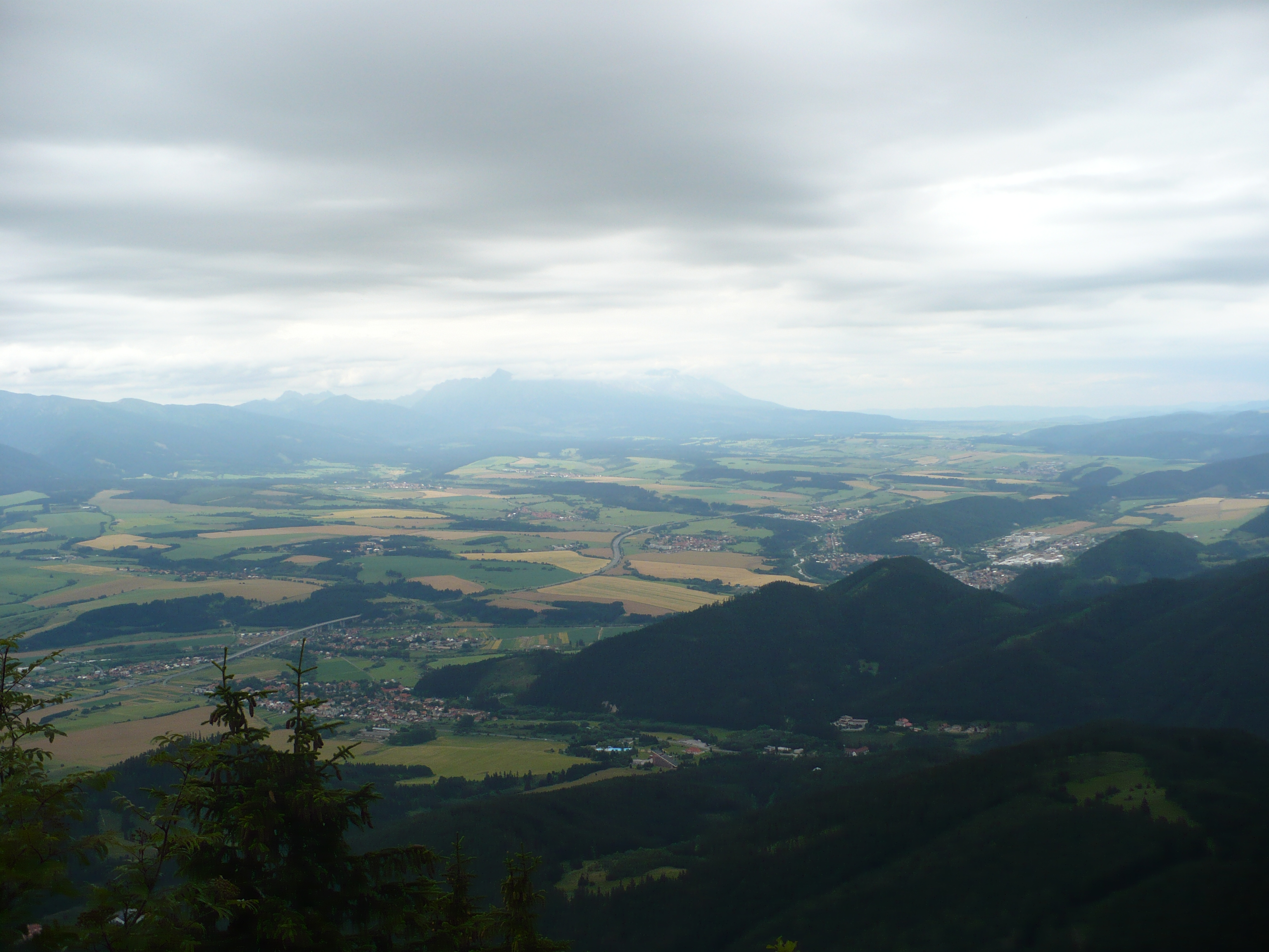 Podtatranská kotlina from Poludnica hill in Lower Tatras, Slovakia